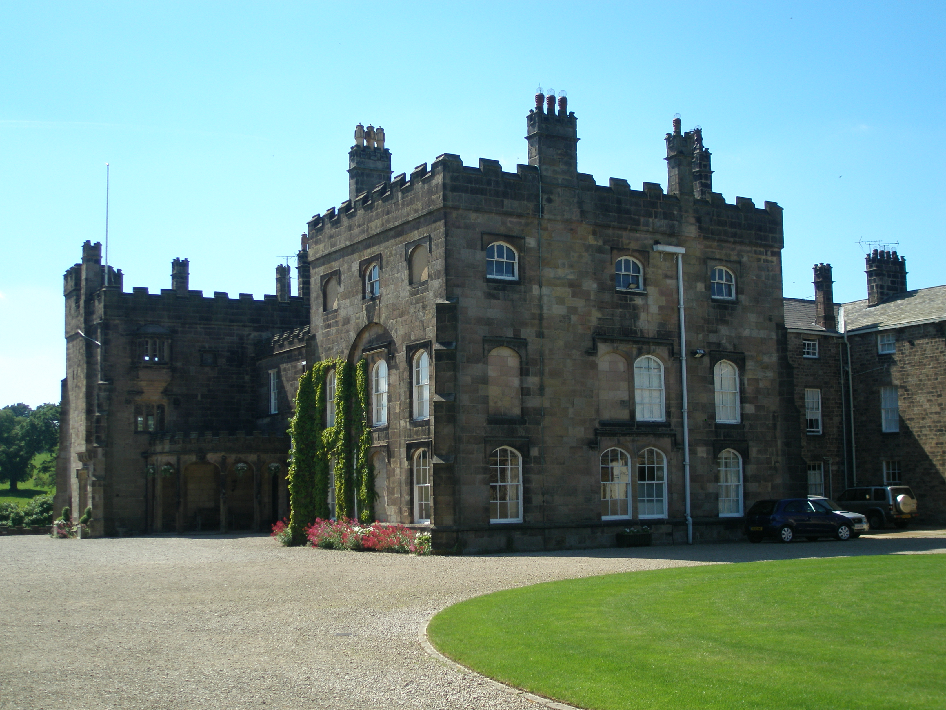 Photograph of Ripley Castle in North Yorkshire (2008)